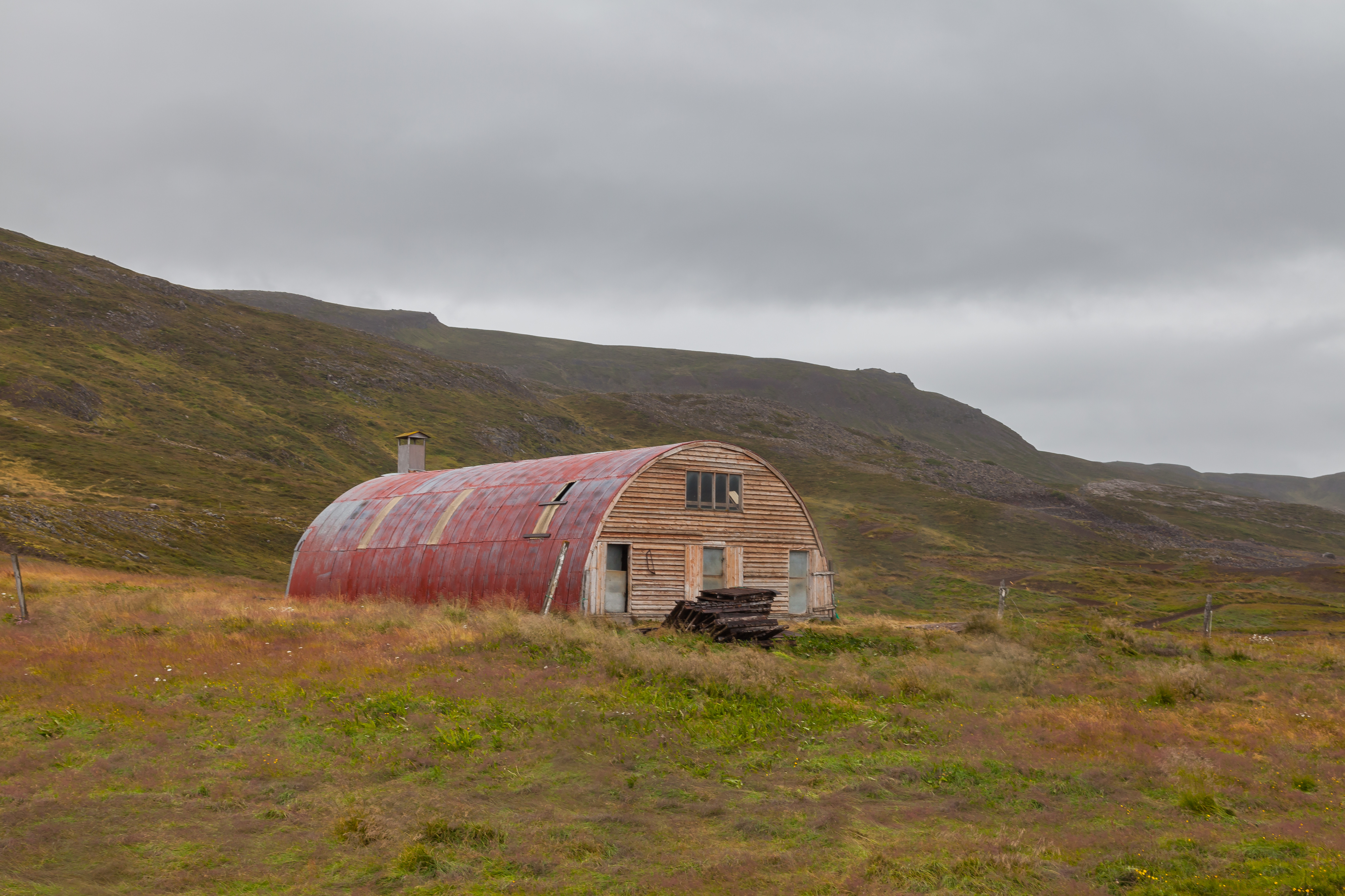 Barrack in Hrútafjörður, Vestfirðir, Iceland